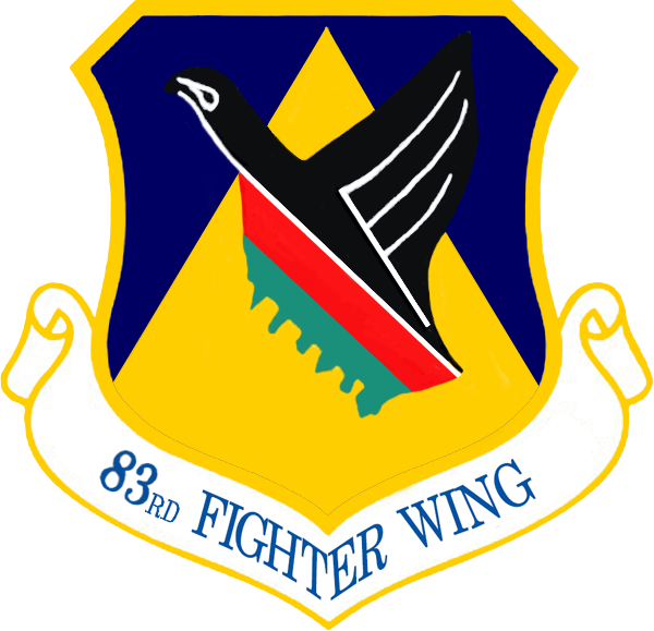 United States Air Force 83rd Fighter Wing emblem. Made with Photoshop.